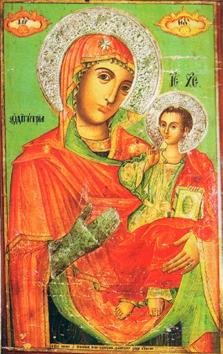 Saint Mary with Churst Icon by Dicho Zograf in Saint Mary Church in Rosoki, 1845